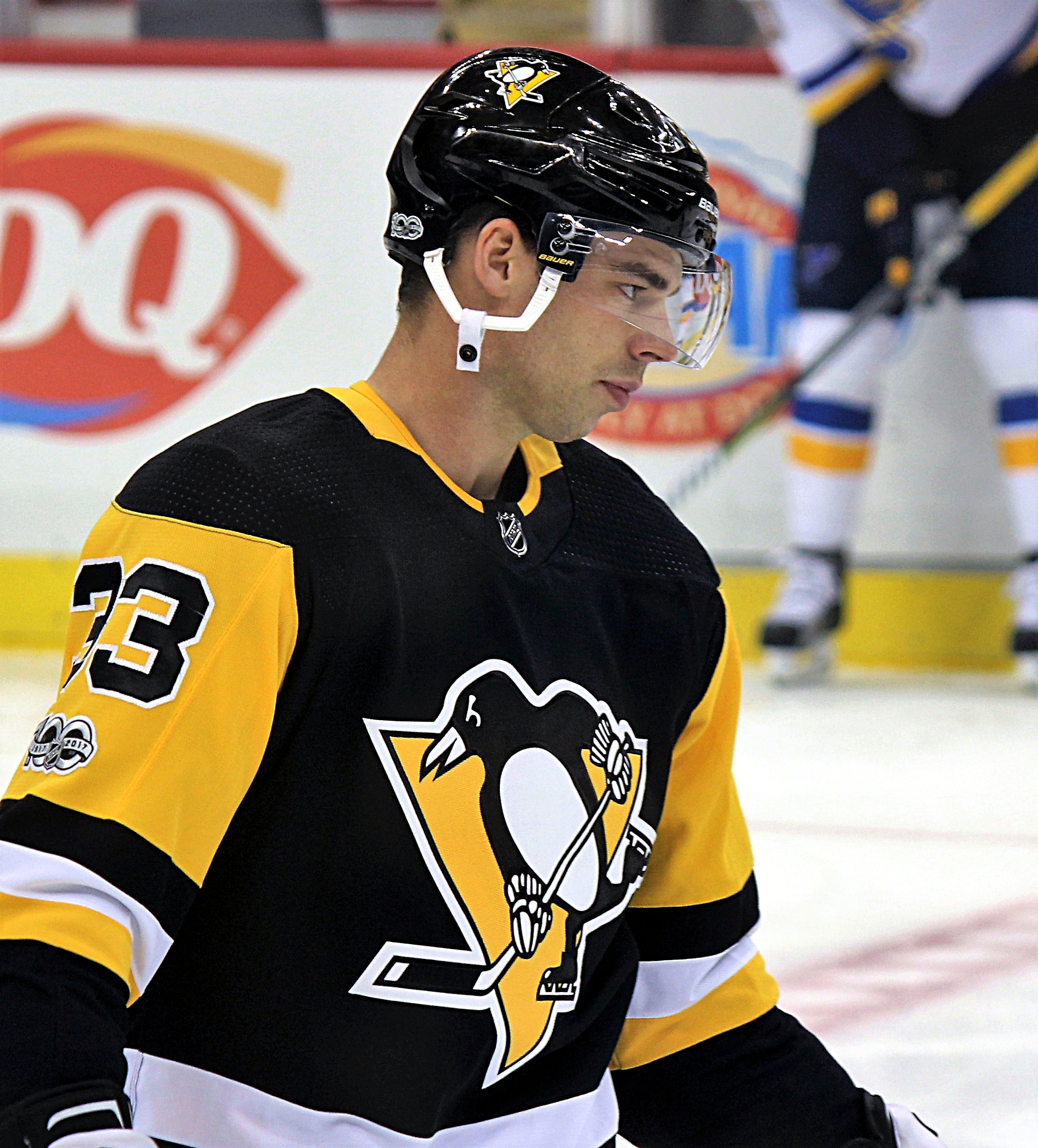 Pittsburgh Penguins forward during a game against the St. Louis Blues, October 4, 2017, at PPG Paints Arena in Pittsburgh, PA.